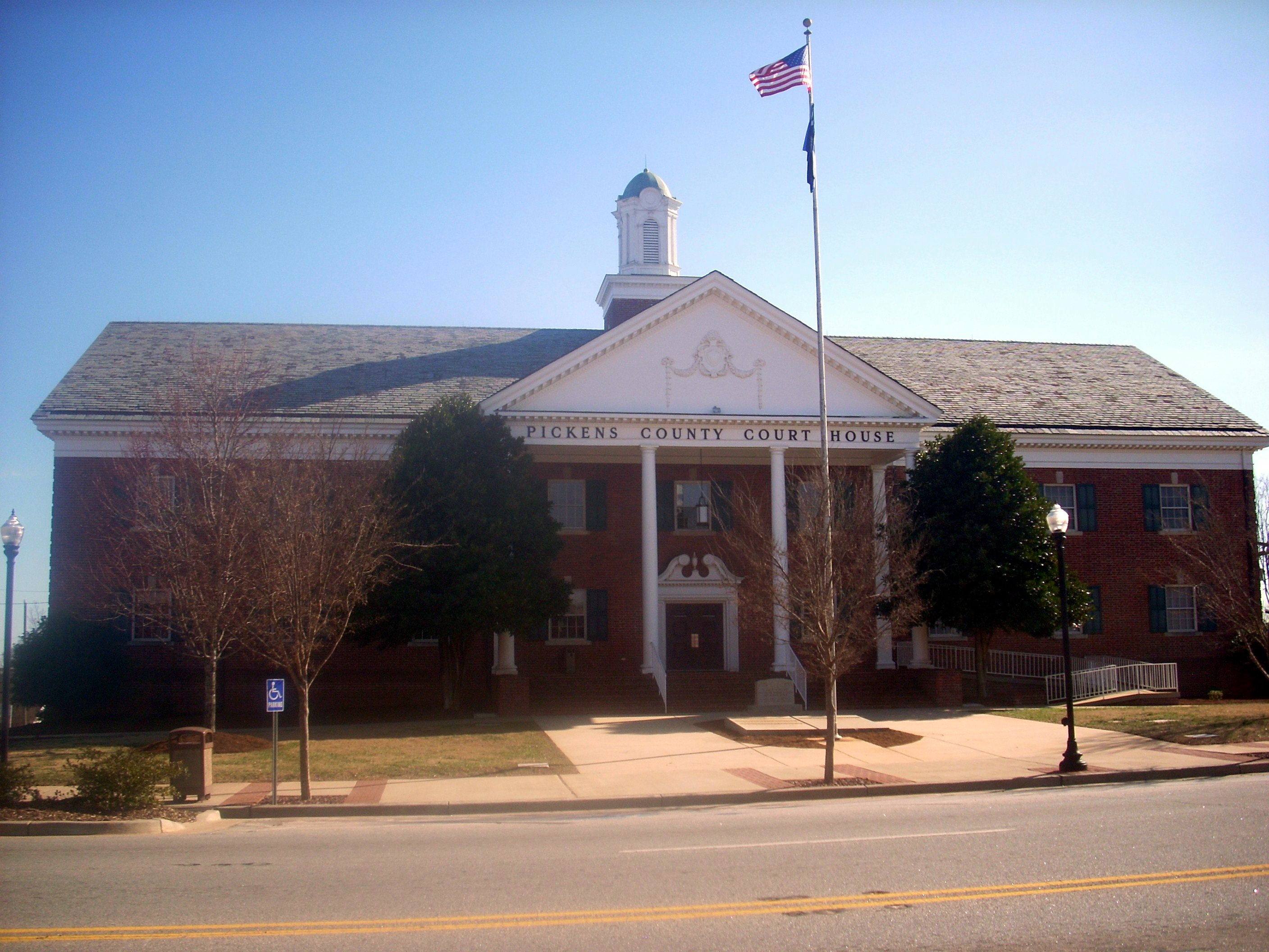 Pickens County Courthouse, Pickens (Pickens County, South Carolina)